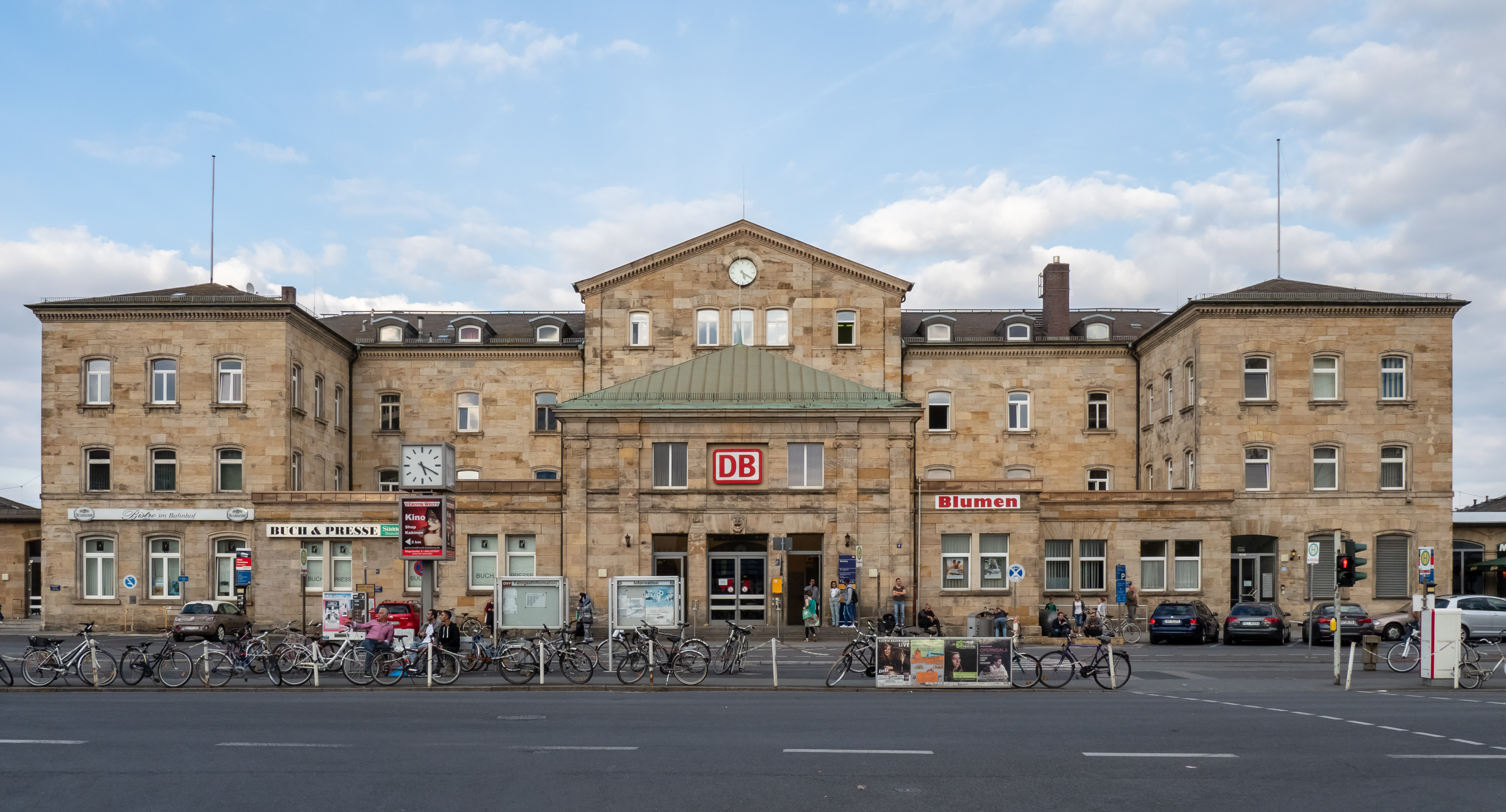 Station building in Bamberg